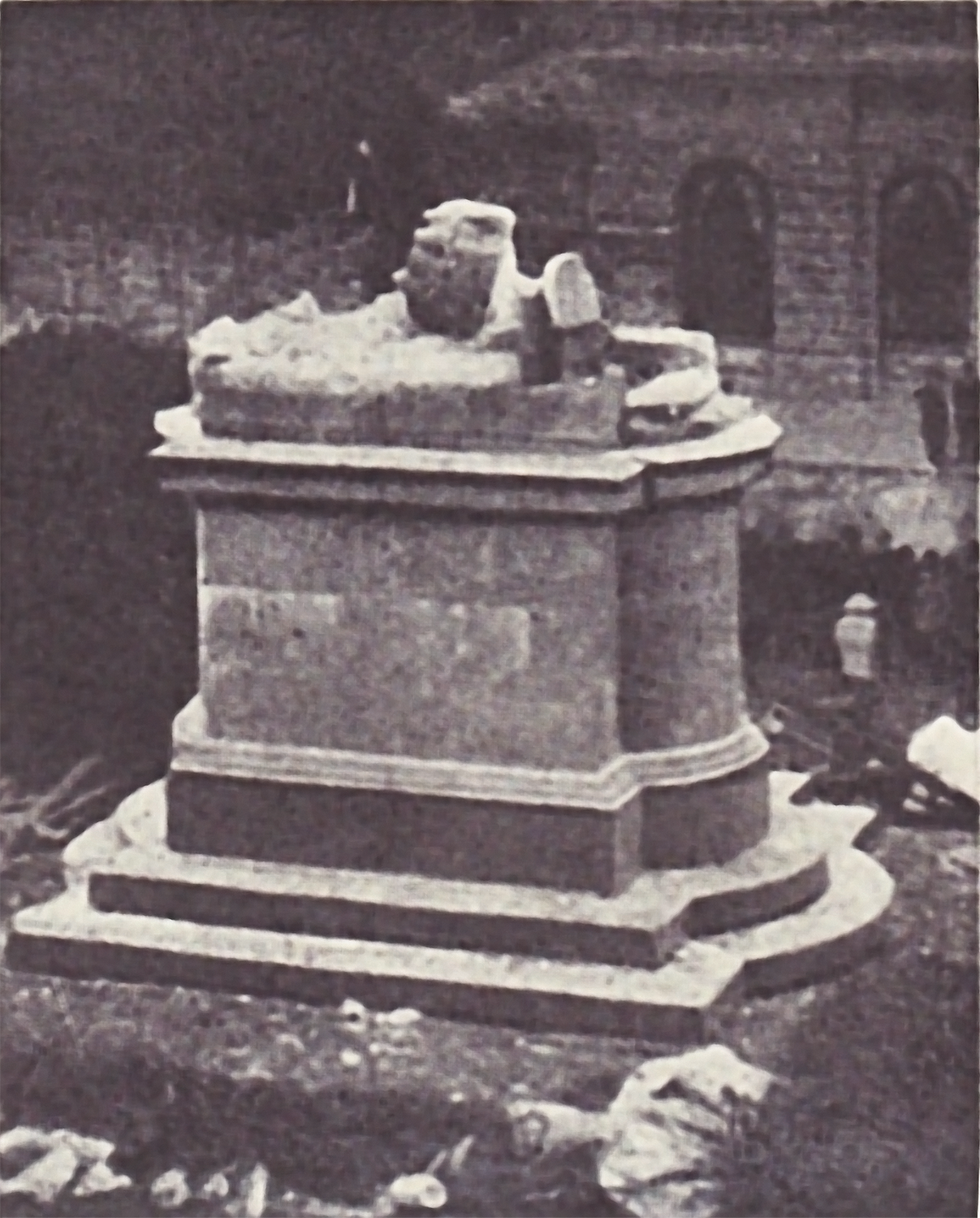 Torso of the destroyed statue of the Maria Theresa statue in Bratislava.